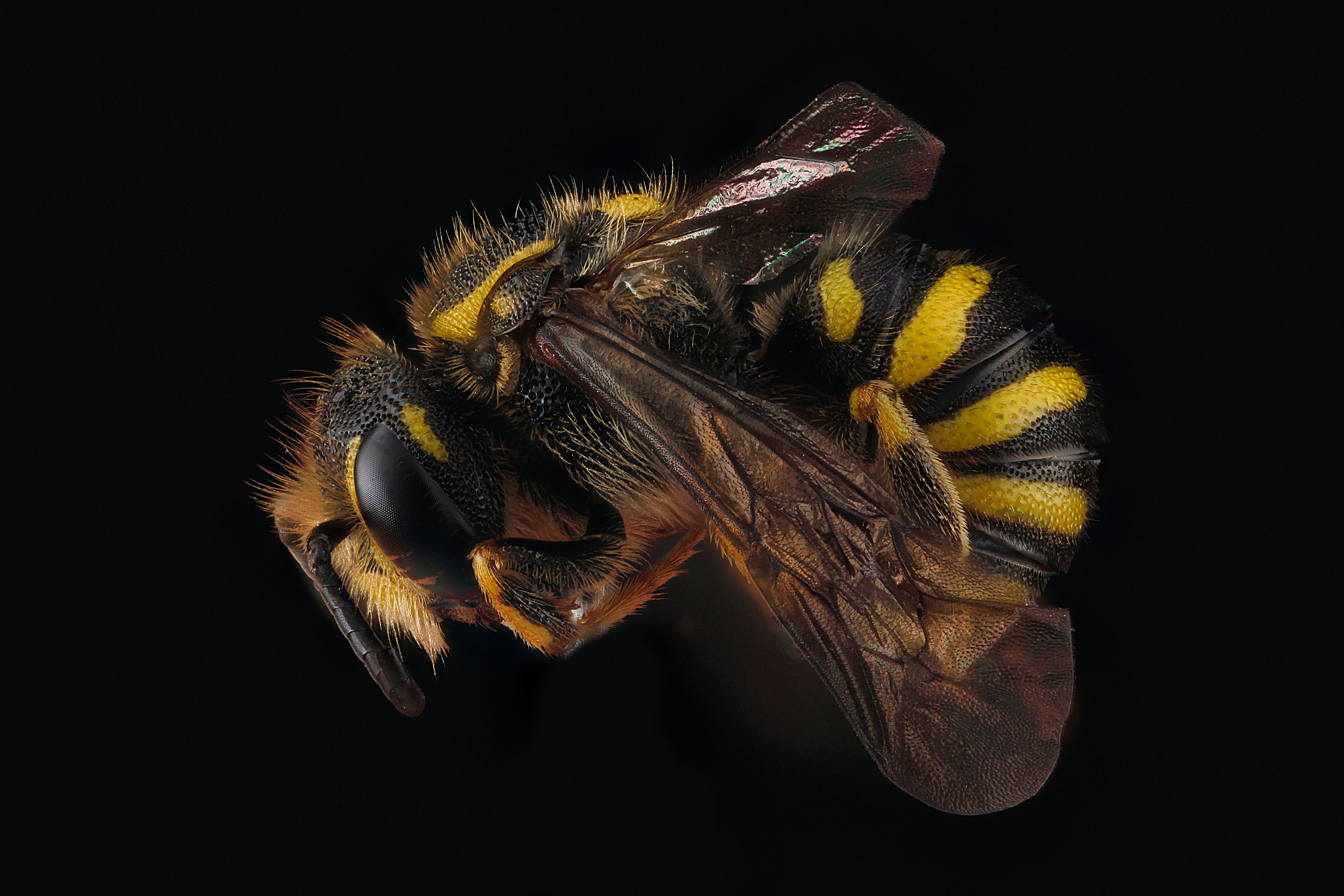 Paranthidium jugatorium, male July 2012, Allegany County, First State record.